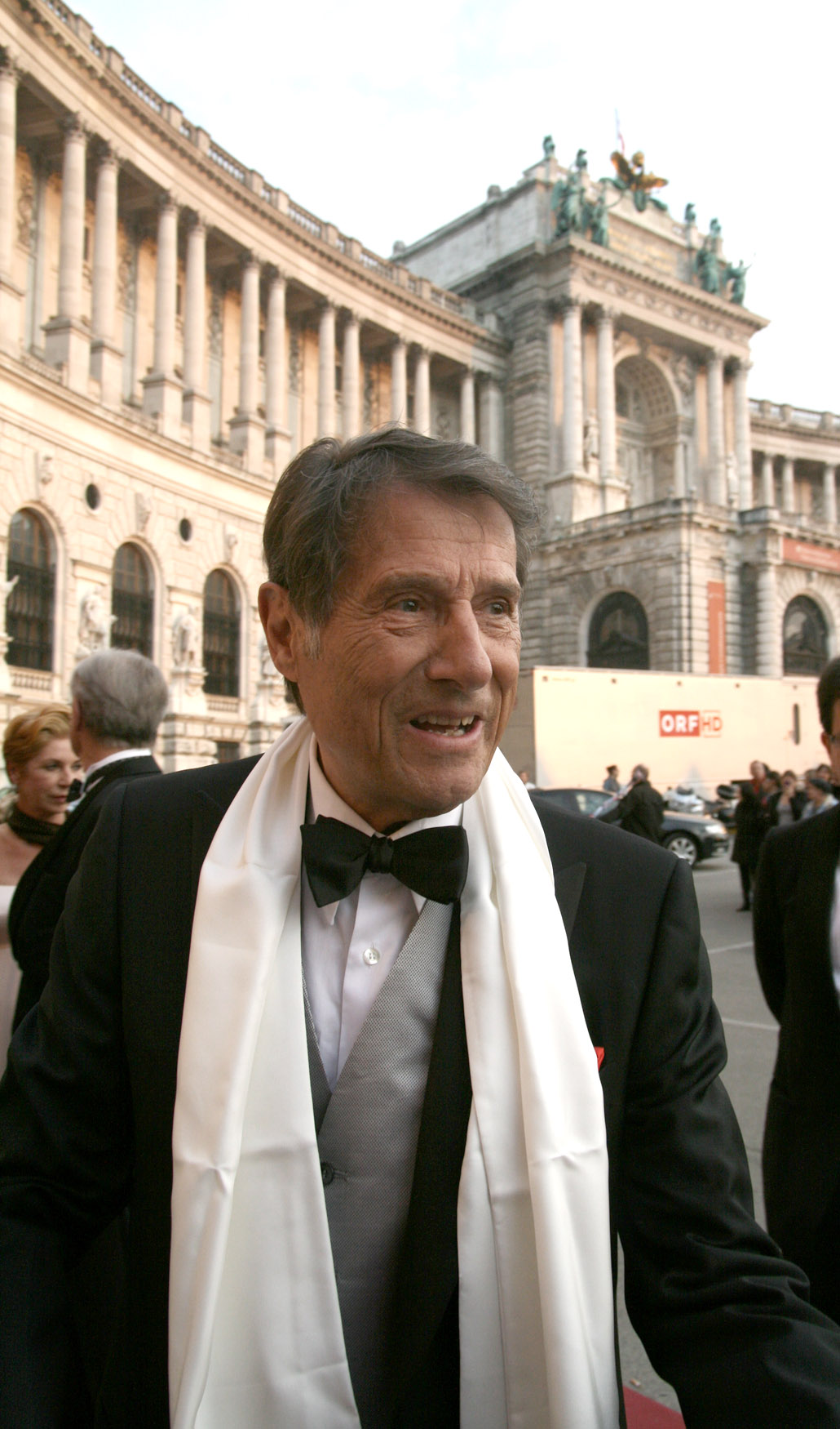 Udo Jürgens at the Romy TV awards (Hofburg Imperial Palace in Vienna)